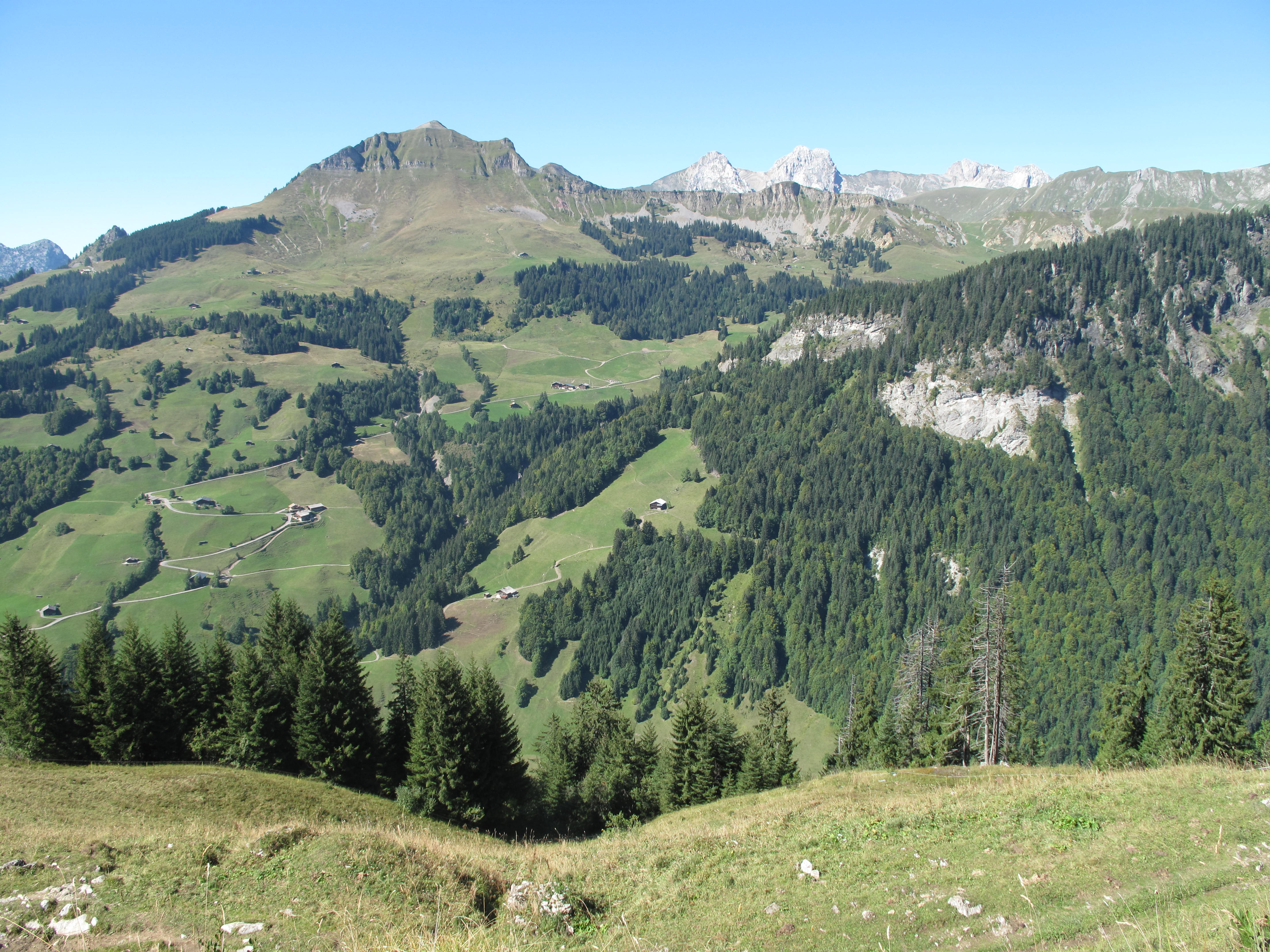 The valley of "le Planet" looking to west" (Haute-Savoie, France).